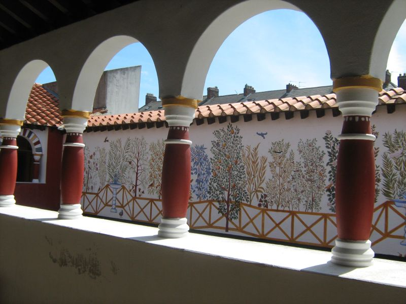 Paintings in the reconstructed barracks at Arbeia Roman Fort, South Shields